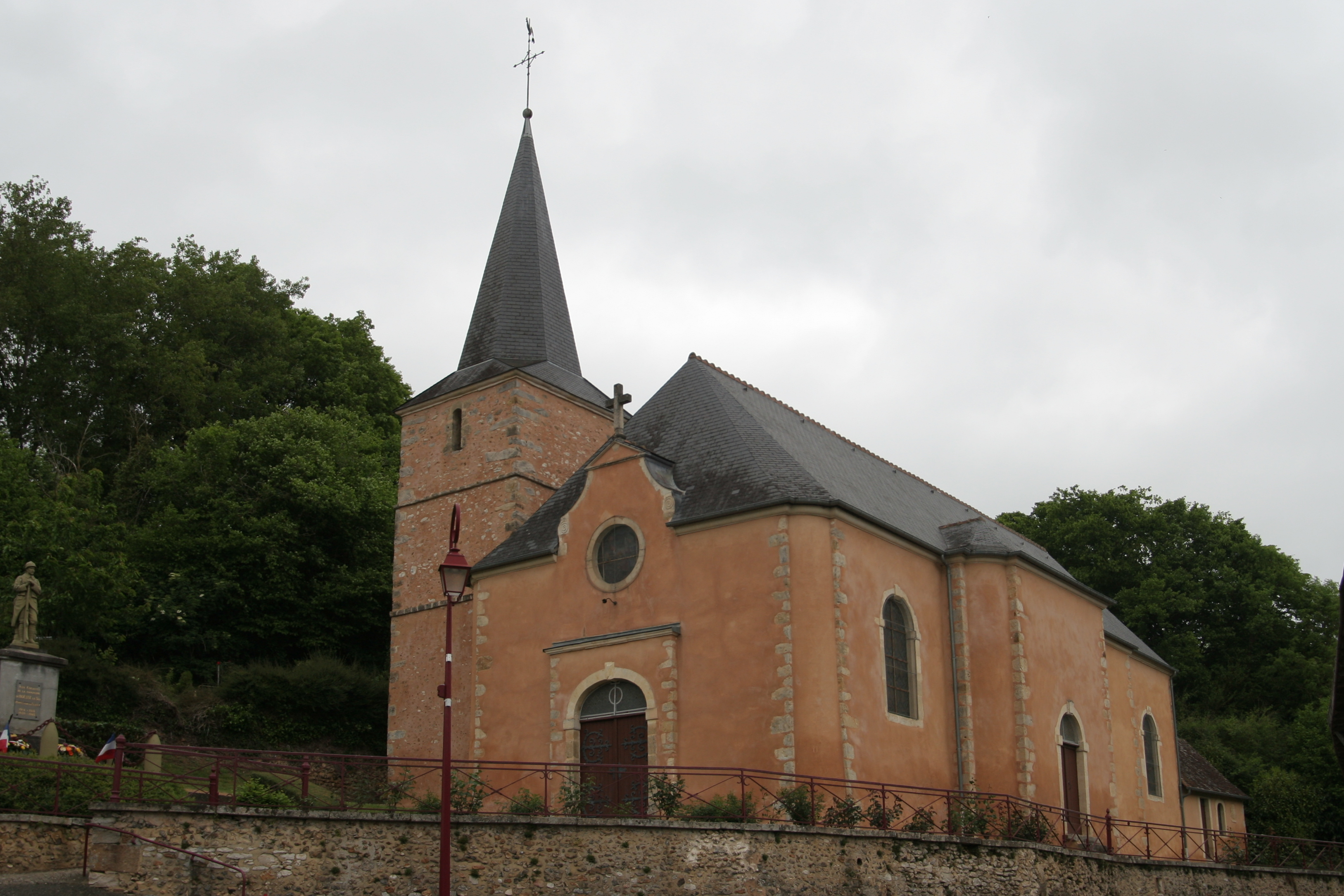 Church of Boëssé-le-Sec.